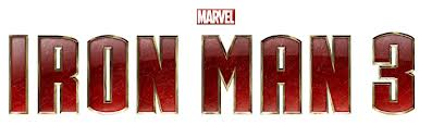 Iron Man 3 logo